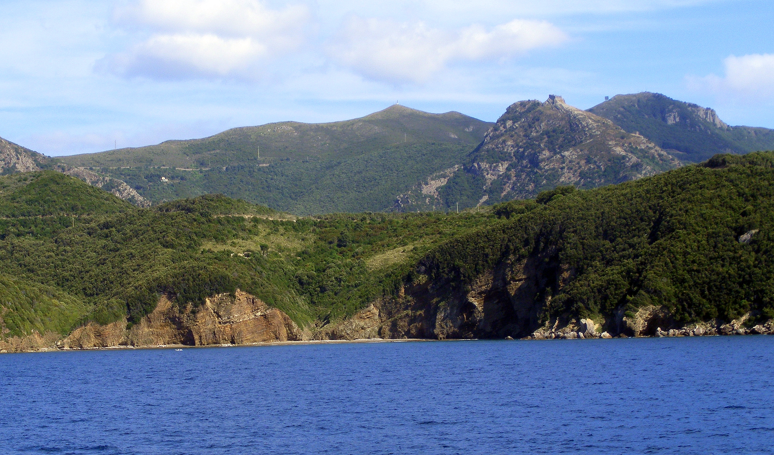 Cima del Monte (right) and Volterraio fortress (centre) from the sea (Elba Island, LI, Italy). Within the Arcipelago Toscano National Park.